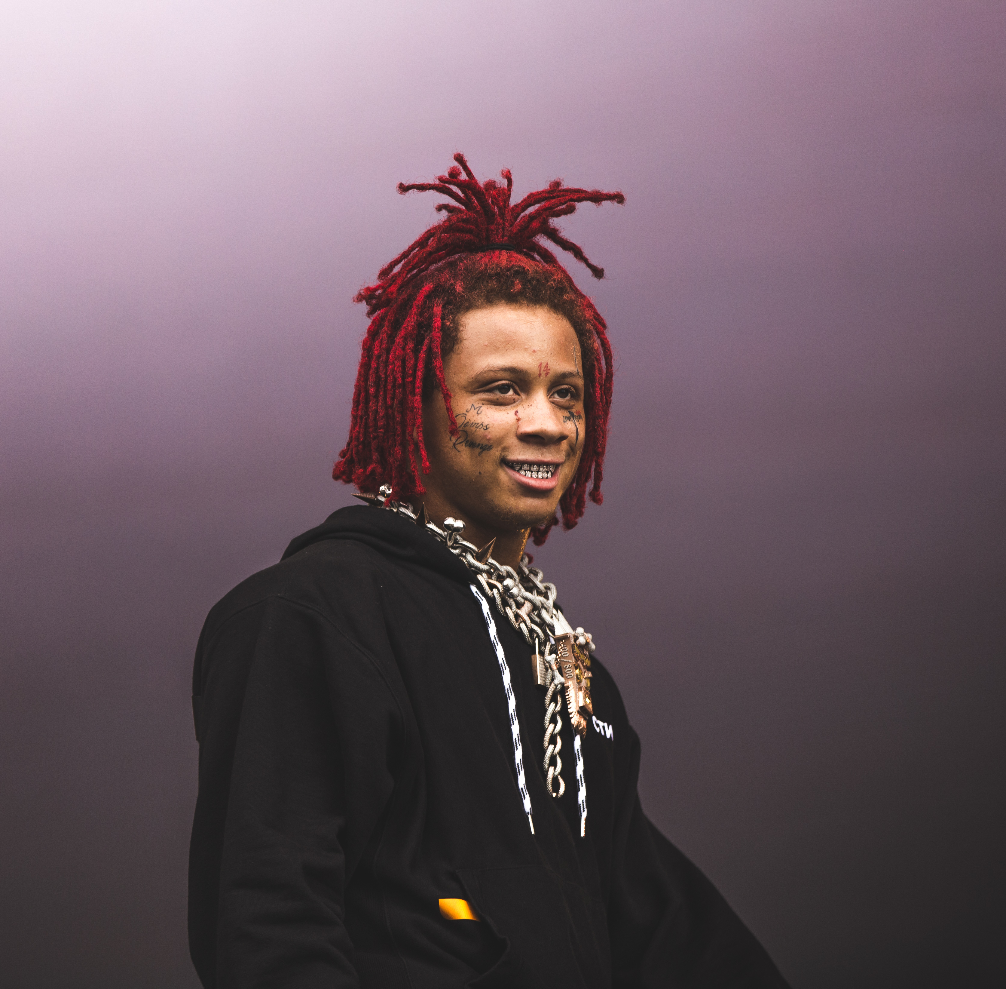 Photo by Kris Knesel